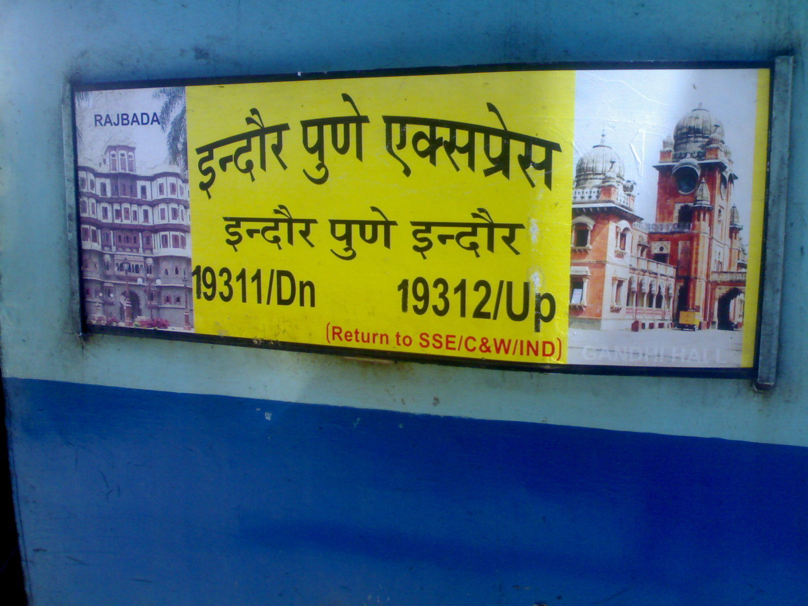 logo of Pune Express from Indore